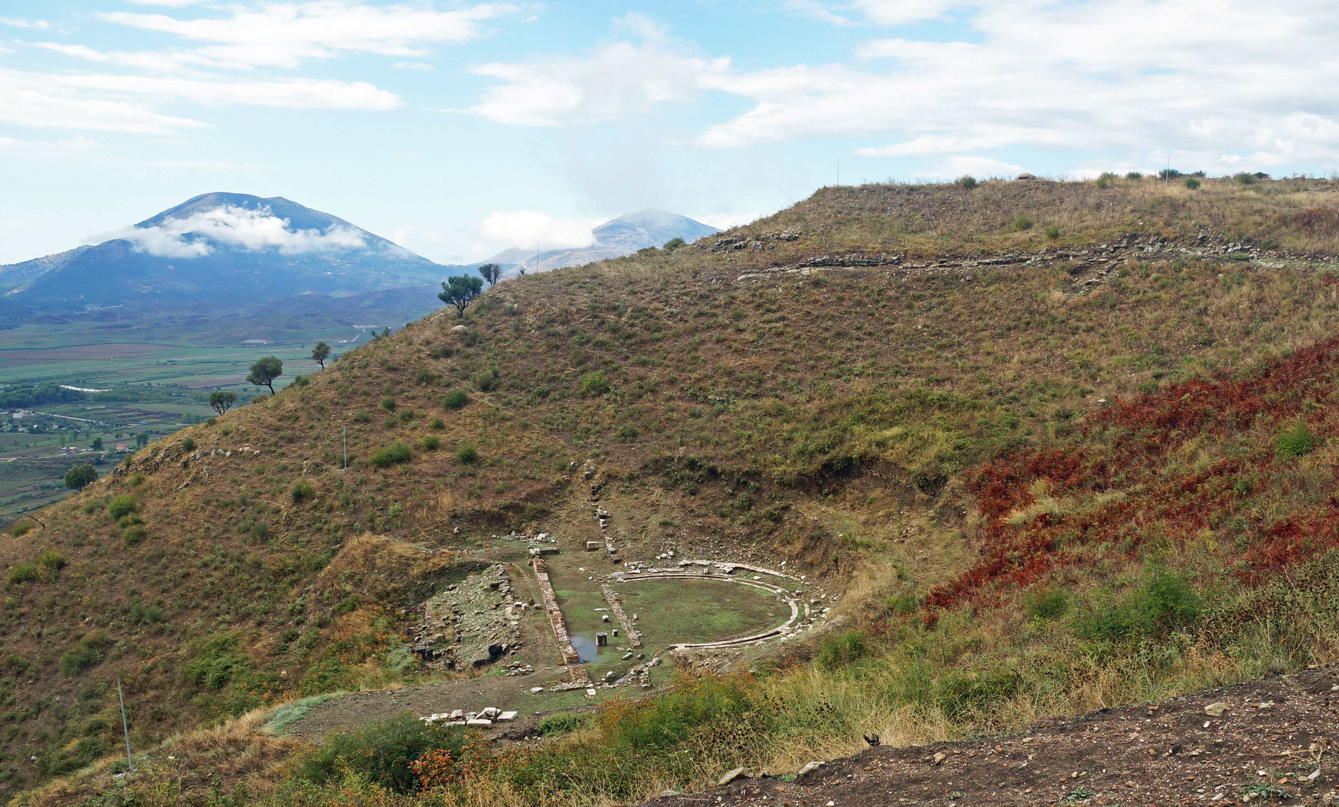 Theatre of the ancient site of Phoinike, Southern Albania